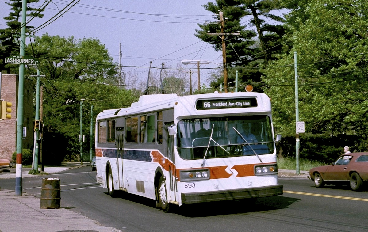 SEPTA (Philadelphia) trolleybus 893, a 1979 AM General 10240T, on Frankford Avenue at Ashburner Street. It is outbound on route 66-Frankford, headed for City Line Loop. SEPTA had 110 AM General trolleybuses (trackless trolleys), the last of which were retired in 2003.